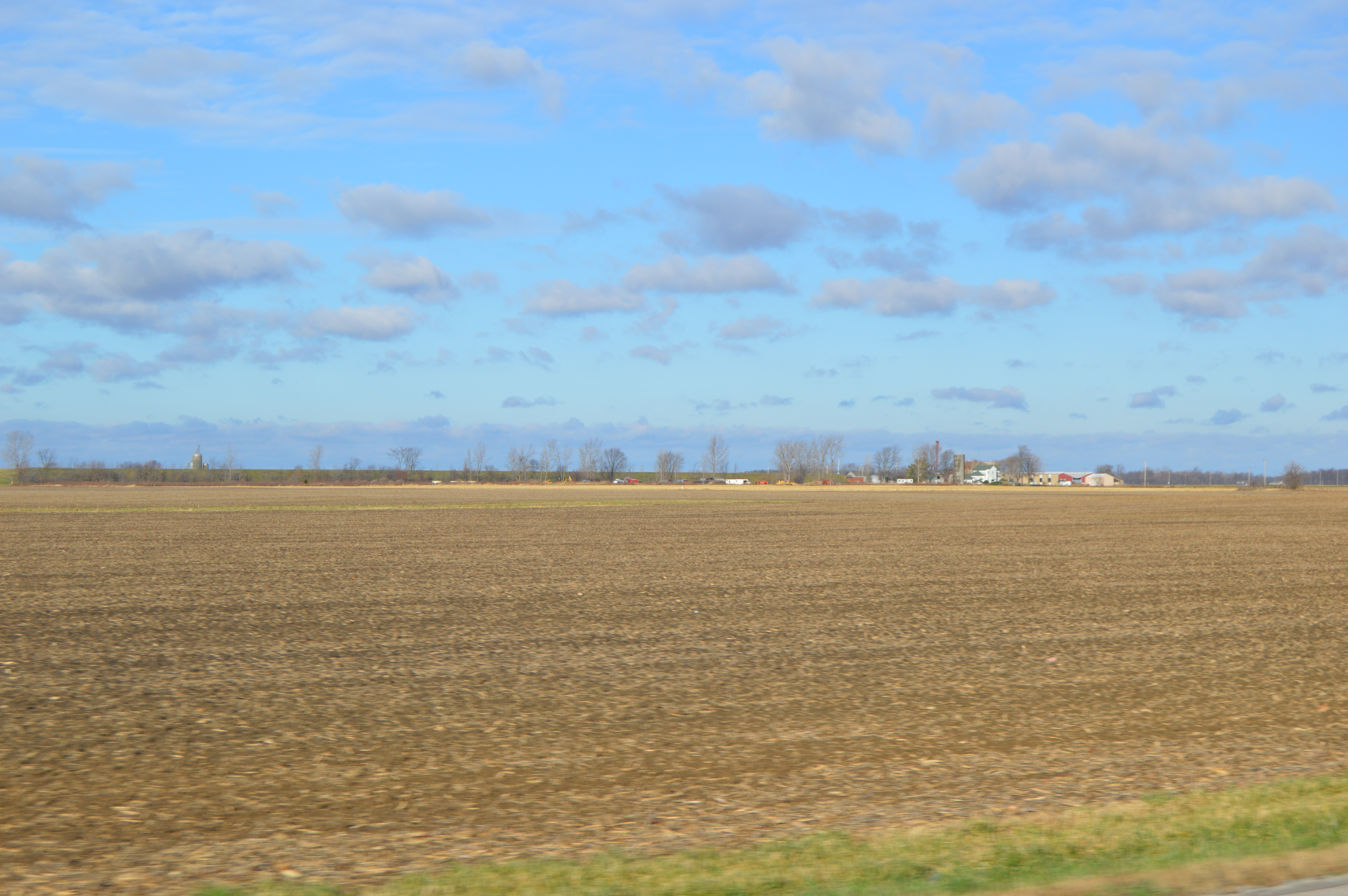 Looking westward from State Route 108 south of the Road C intersection in eastern Clinton Township, Fulton County, Ohio, United States.